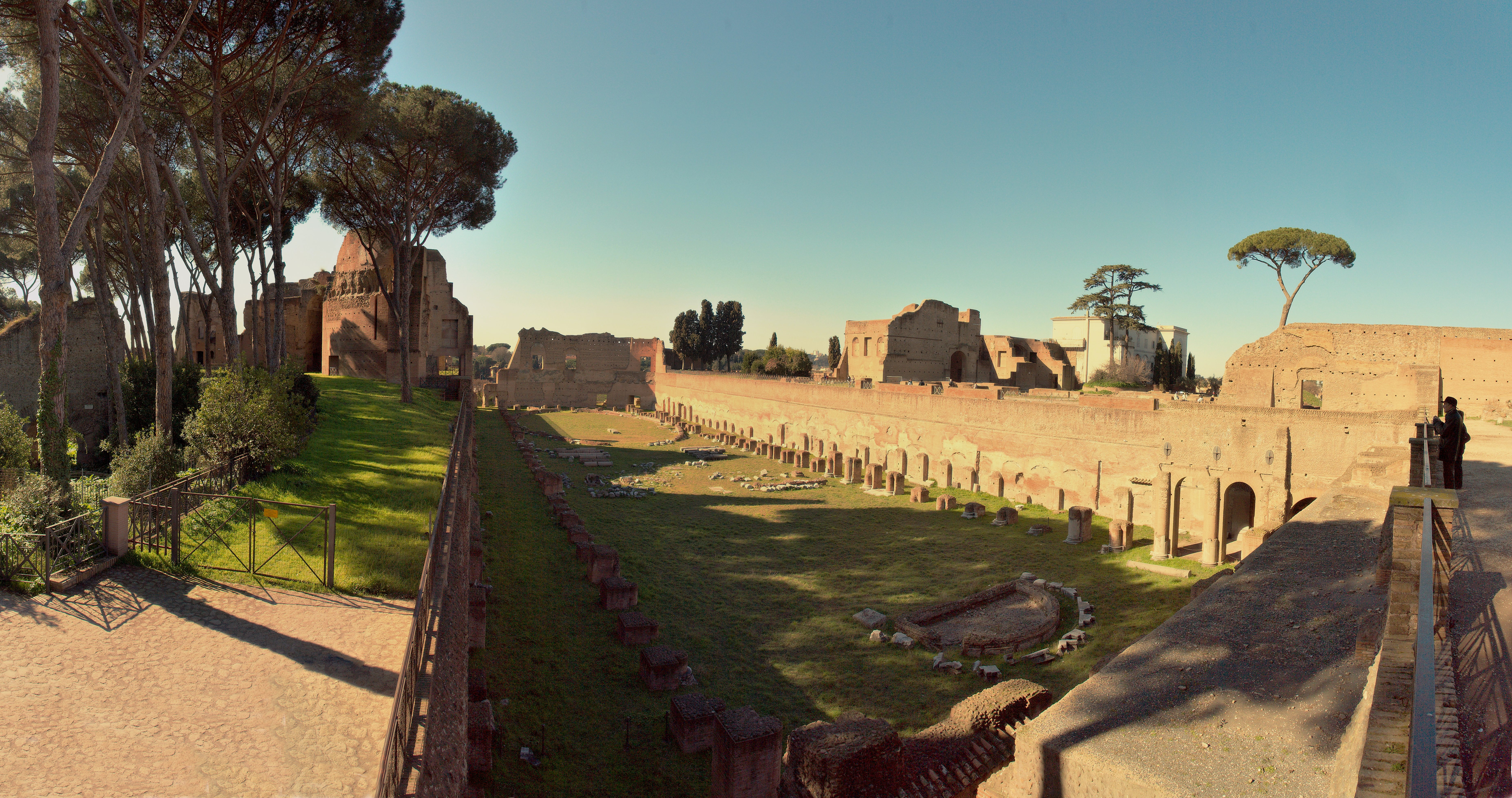 Stadion in the palace of Domitian